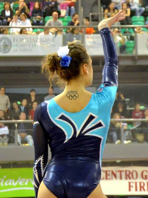 Elisabetta Preziosa. Florence, 6th april 2013